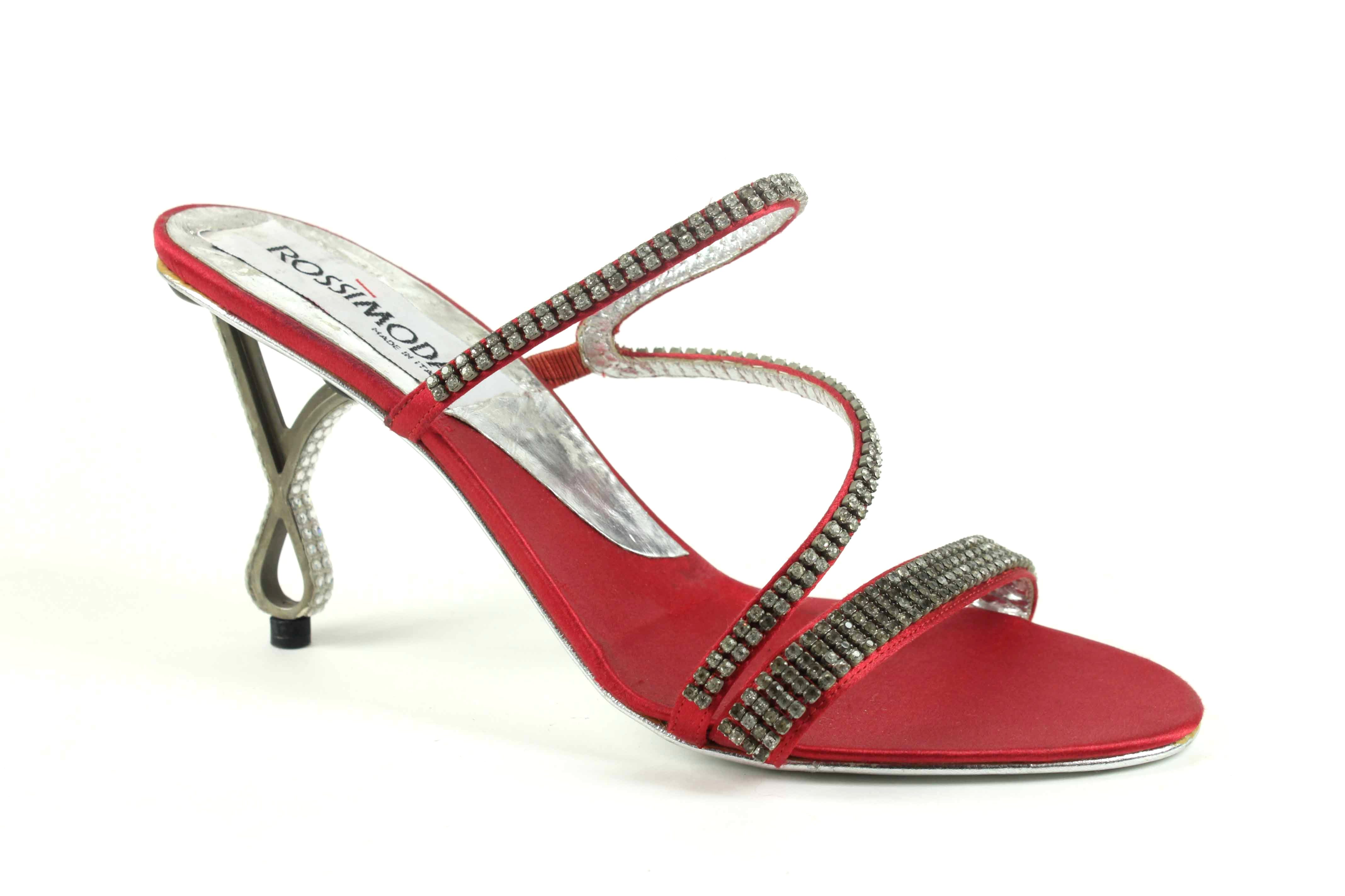 Rossimoda woman's shoe, 20th century